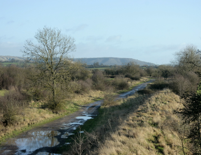 Line of the old railway to Devizes Left the branch line through Melksham near Holt. A branch line off a branch line, didn't stand much chance really. The hill in the distance, centre frame, is Roundway Down near Devizes.